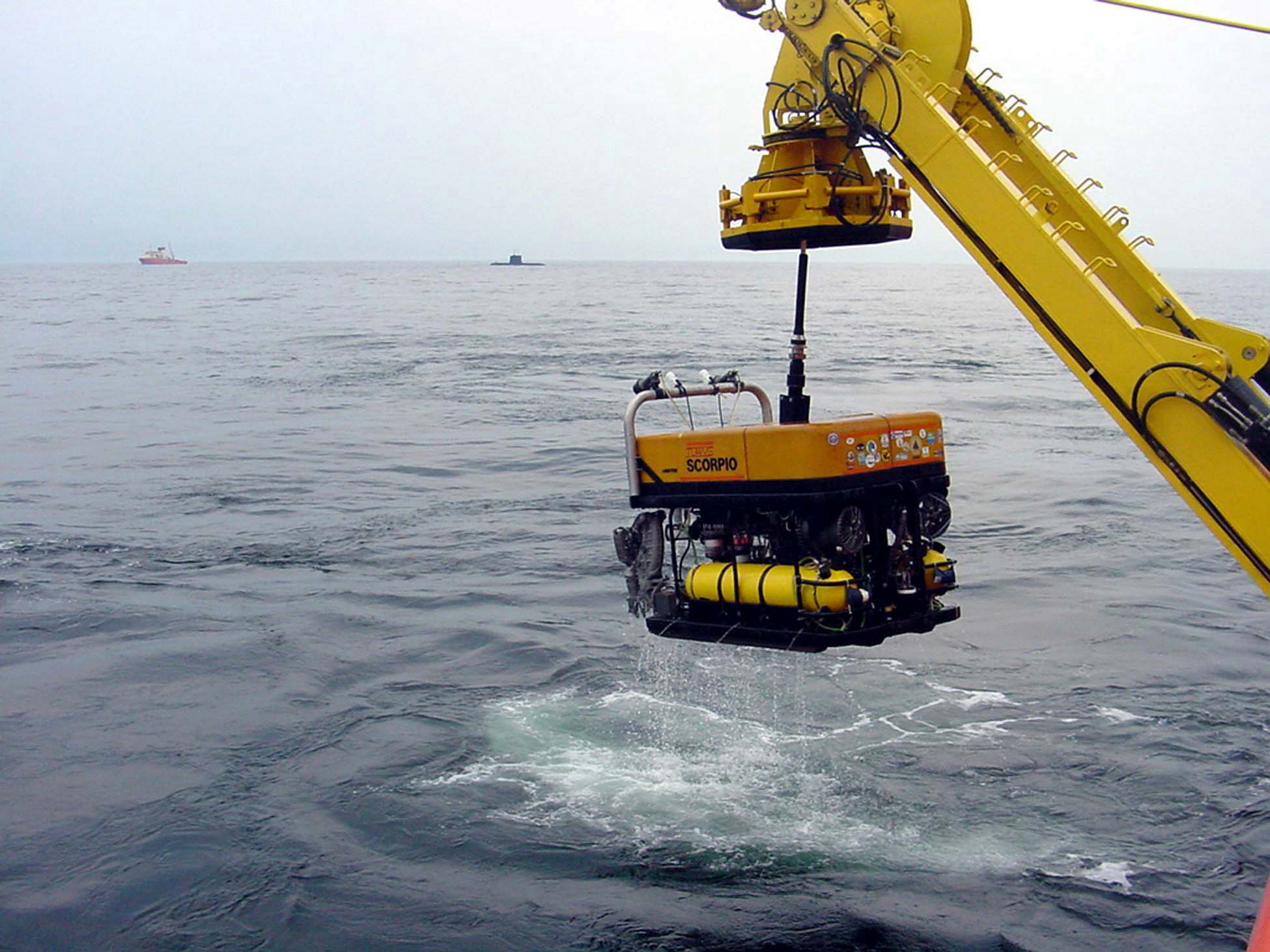 U.S. Navy file photo - (May 24, 2002) The U.S. Remote Operated Vehicle (ROV) Super Scorpio is retrieved after completing a pod delivery exercise during Exercize Sorbet Royal 2002. The Super Scorpio delivered a canister of emergency supplies to the Swedish submarine HSwMS Vestergotland using its mechanical arms. (HSwMS Verstergotland and HDMS Gunnar Seidenfaden are pictured in background) Sorbet Royal 2002, the fifth NATO sponsored, live Submarine Search and Rescue Exercise and the third exercise open for Partner for Peace countries is being held off the coast of Denmark from May 21-31. U.S. Navy photo by Journalist 2nd Class Steve Vasquez. (RELEASED)